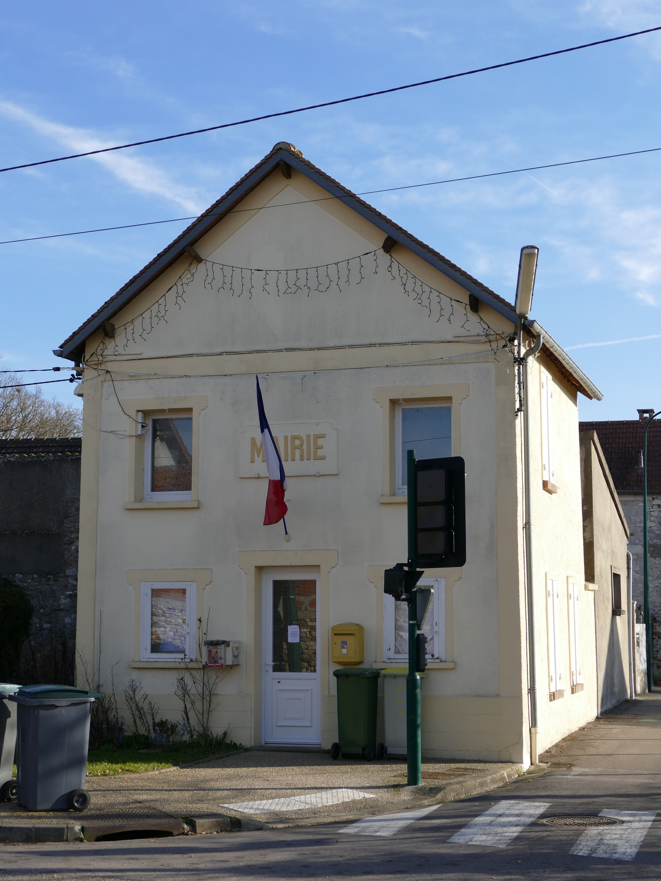 The city hall in Favrieux (Yvelines, Île-de-France, France).